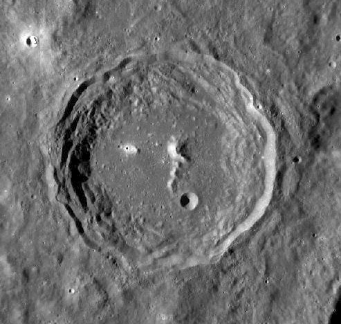 La Pérouse lunar crater - LRO-WAC mosaic